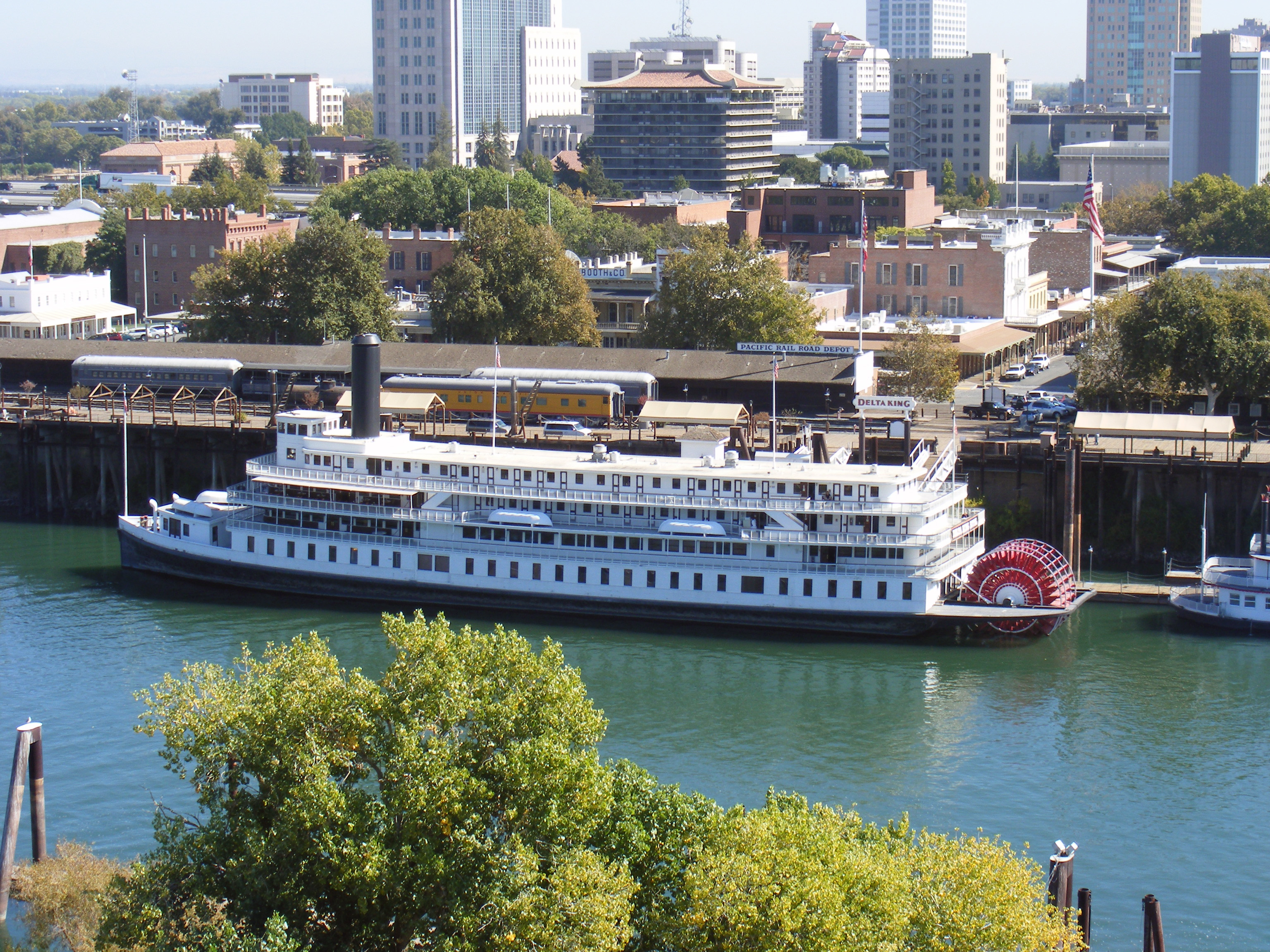 Delta King, as seen from The Ziggurat in West Sacramento, California. The building is occupied by California Department of General Services who were very generous in their time in permitting me use their balcony.